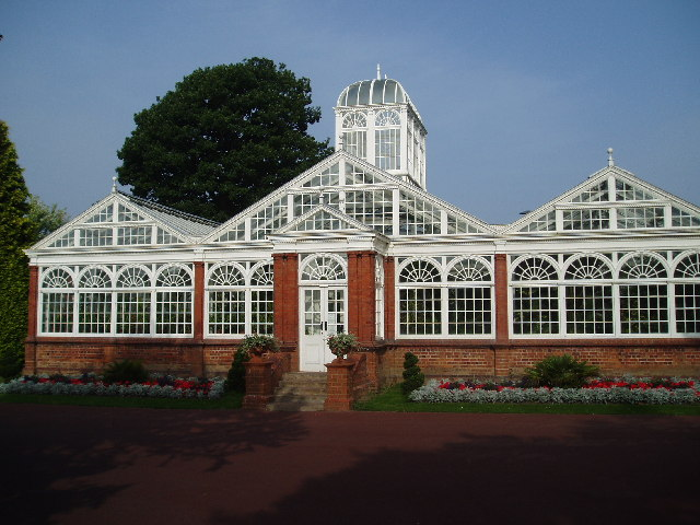 The Glass House, West Park, Wolverhampton. The magnificent glass house situated in West Park, Wolverhampton. The ornate architectural style of the building is more than matched on the inside by the impressive display of exotic flora.